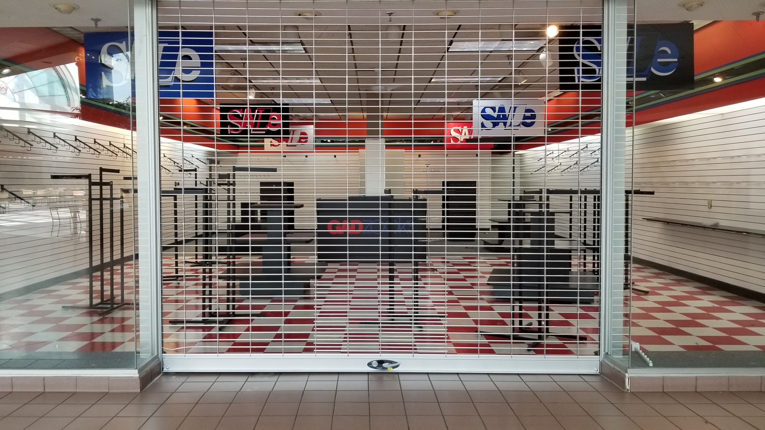 North DeKalb Mall, DeKalb County, Georgia